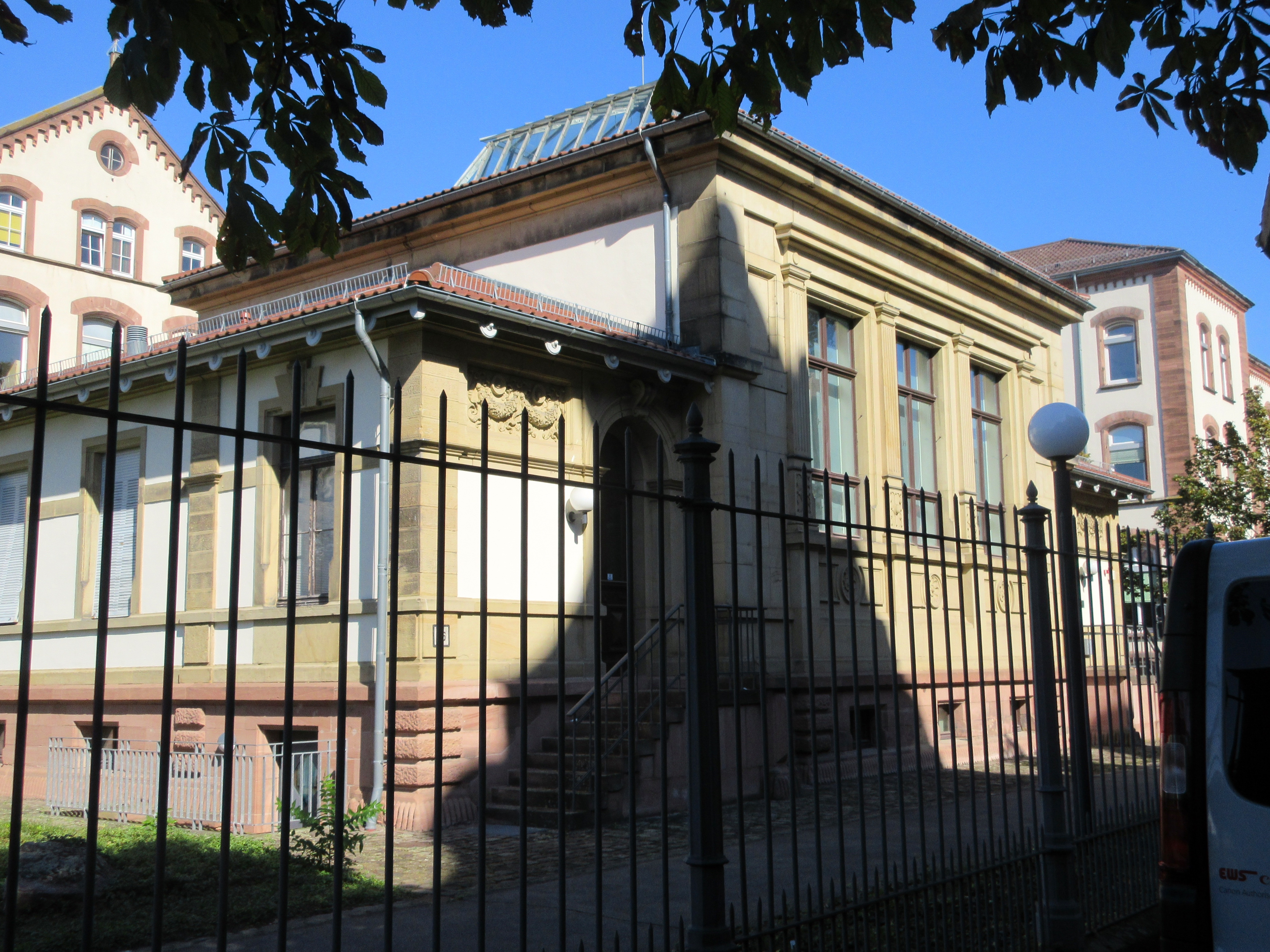 Location for the permanent Prinzhorn Painting Exhibition in Heidelberg